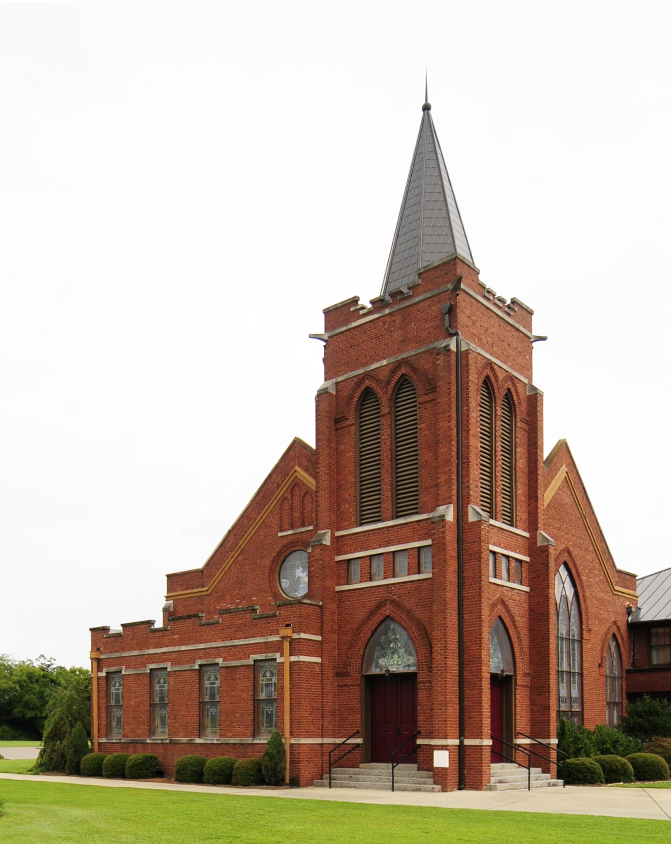 Church Street Historic District, building shown is the Leesville United Methodist Church.